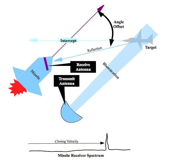 Flight path geometry associated with semi-active homing guided missile operation.